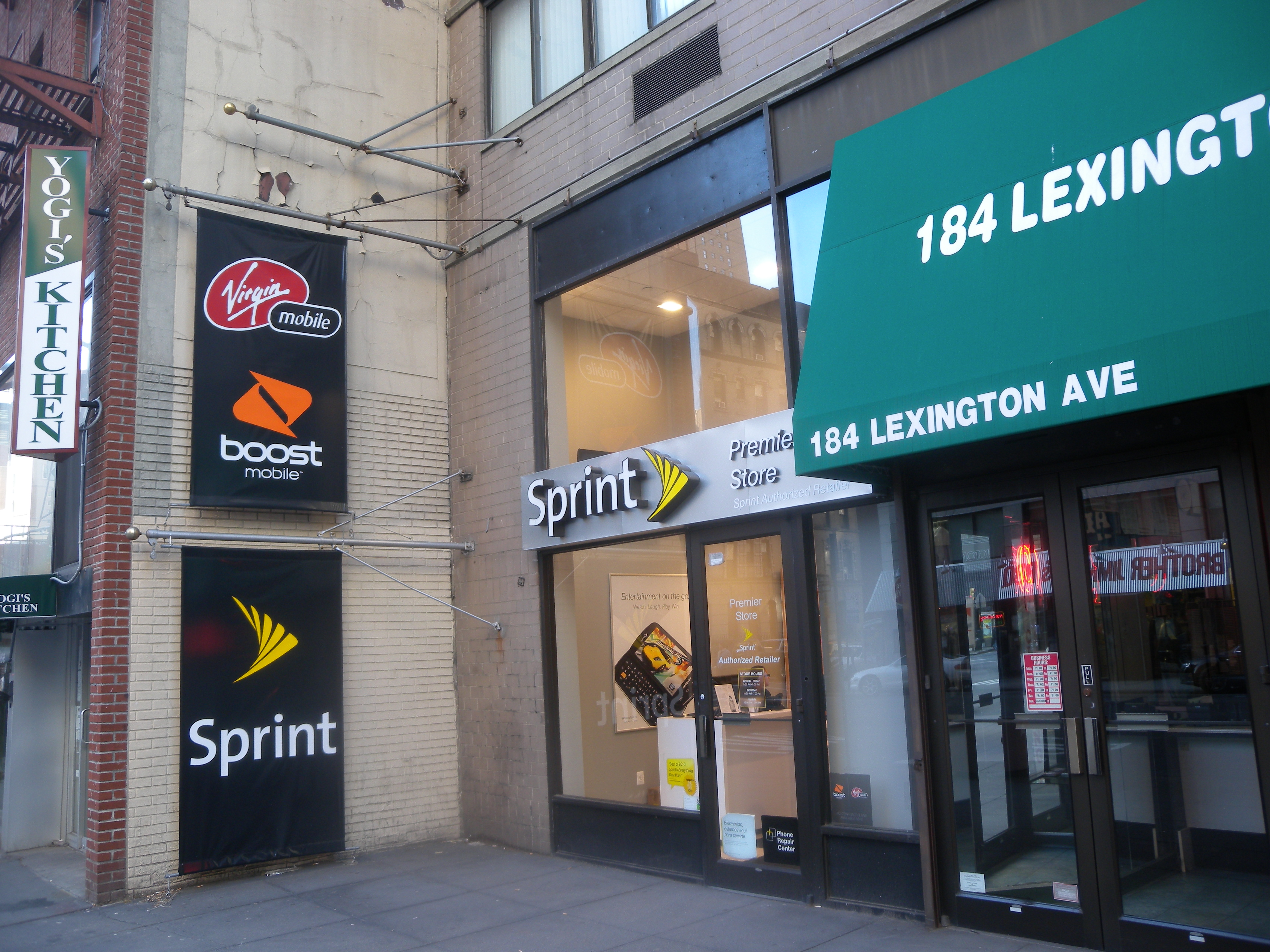 A Sprint Premier Store, an authorized retailer of Sprint, Boost Mobile and Virgin Mobile branded products and services, located at 184 Lexington Avenue, New York, NY 10016, United States. This photograph is a view of Lexington Avenue, looking southwest from 32nd Street. EXIF location is incorrect due to photographer's error.